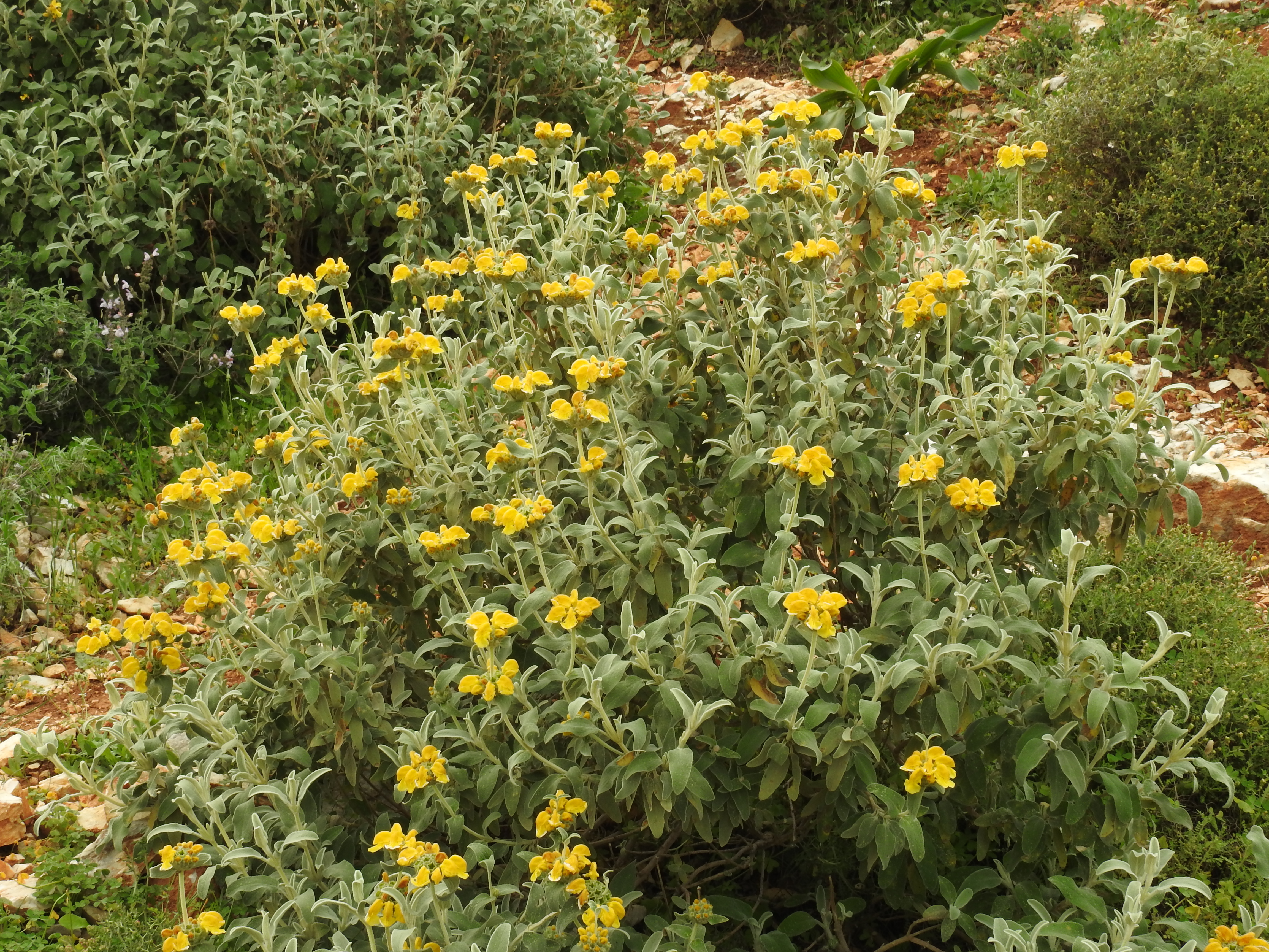 Jerusalem sage (Phlomis fruticosa) near Damasta, Crete, Greece